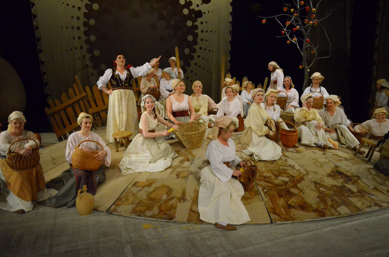 "Ero the Joker" (literally: "Ero from the other world"), a comic opera in three acts by Jakov Gotovac, with a libretto by Milan Begović based on a folk tale. Opera of the SNT, Novi Sad, 2013/14; Opera Choir Srpski (latinica): „Ero s onoga svijeta”, komična opera u tri čina, komponovao Jakov Gotovac; libreto napisao Milan Begović; Opera SNP-a, Novi Sad 2013/14; Hor Opere Српски (ћирилица): „Еро с онога свијета“, комична опера у три чина, компоновао Јаков Готовац; либрето написао Милан Беговић; Опера СНП-а, Нови Сад 2013/14; Хор Опере